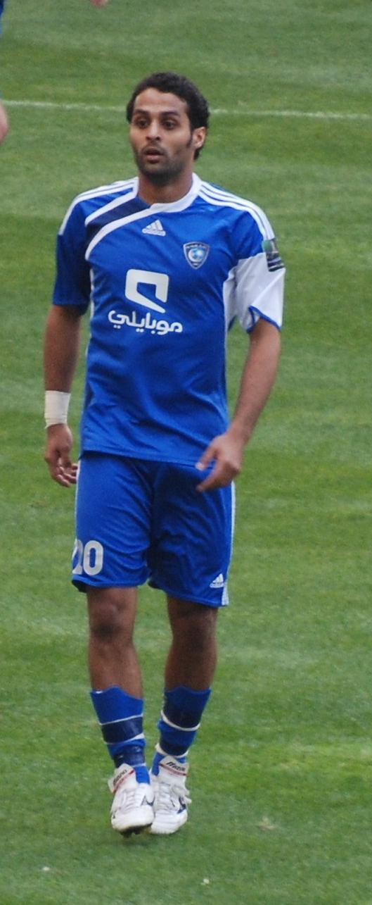 Yasser Al-Qahtani Saudi Arabian professional football player. He is the captain of the Saudi Arabia national football team and currently plays for Al-Hilal.